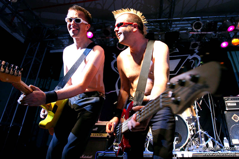 Michael Algar on stage with The Toy Dolls at Viva La Pola Summer Revolution Festival, Pula, Croatia. 2006.